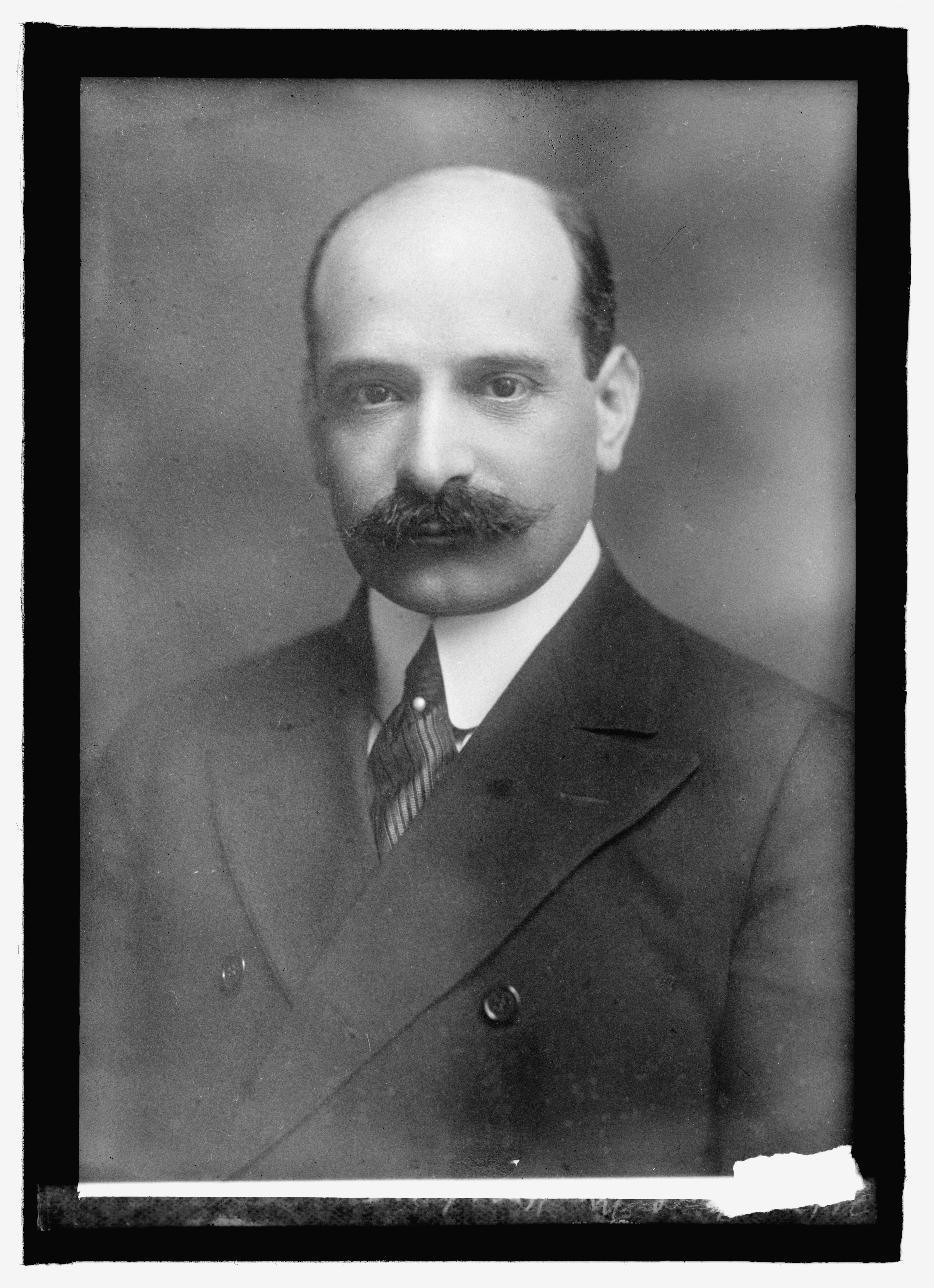 Title: Paul M. Warburg Abstract/medium: 1 negative : glass ; 5 x 7 in. or smaller